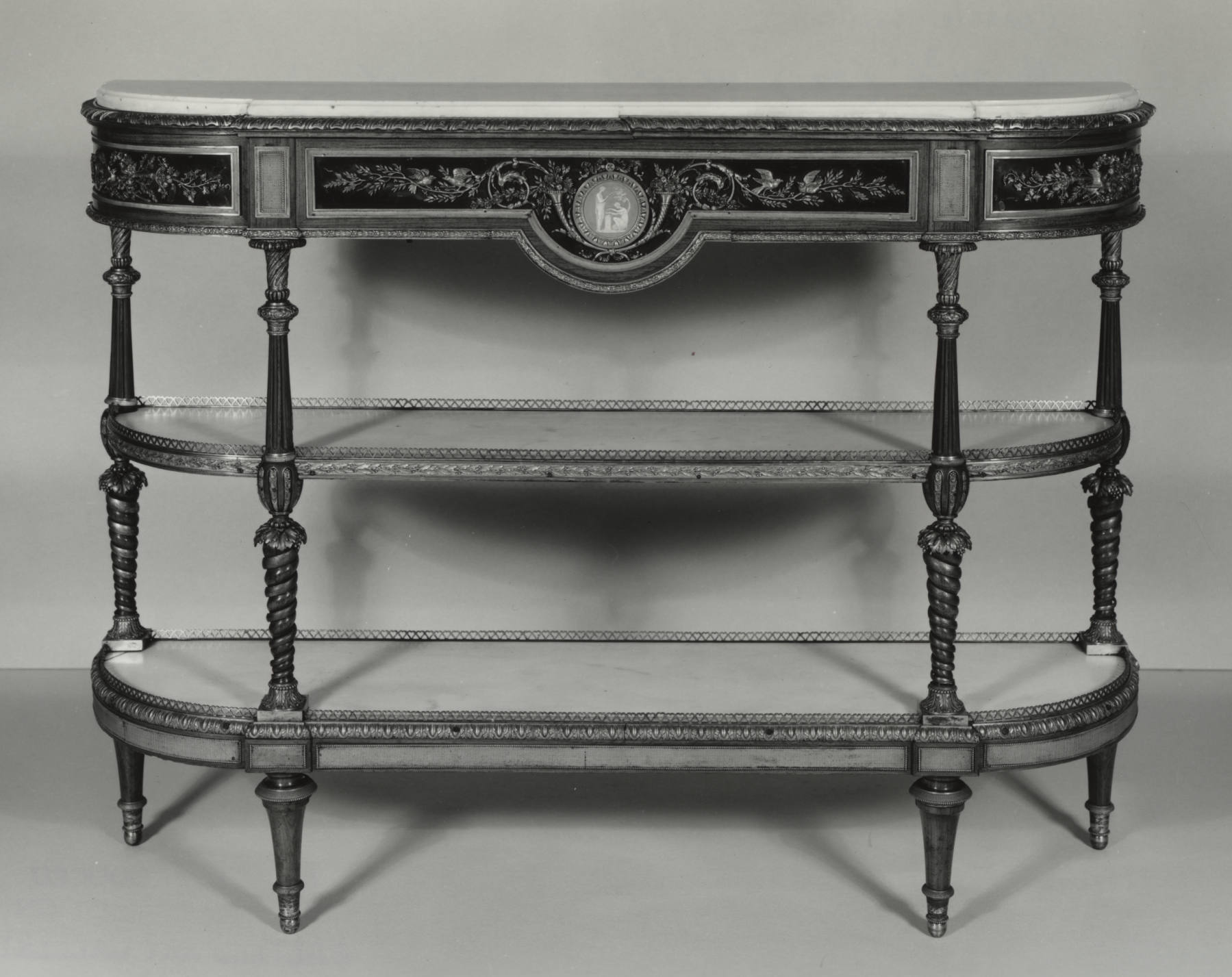 Adam Weisweiler was one of a number of German furniture-makers who moved to France during the reign of Louis XVI. He was celebrated for his delicate furniture, which was acquired by Queen Marie Antoinette, various members of the Bonaparte family, and by the Prince of Wales. This console, or side table, bears a circular medallion showing a "Sacrifice to Peace" manufactured in England by Josiah Wedgwood and exported to France.